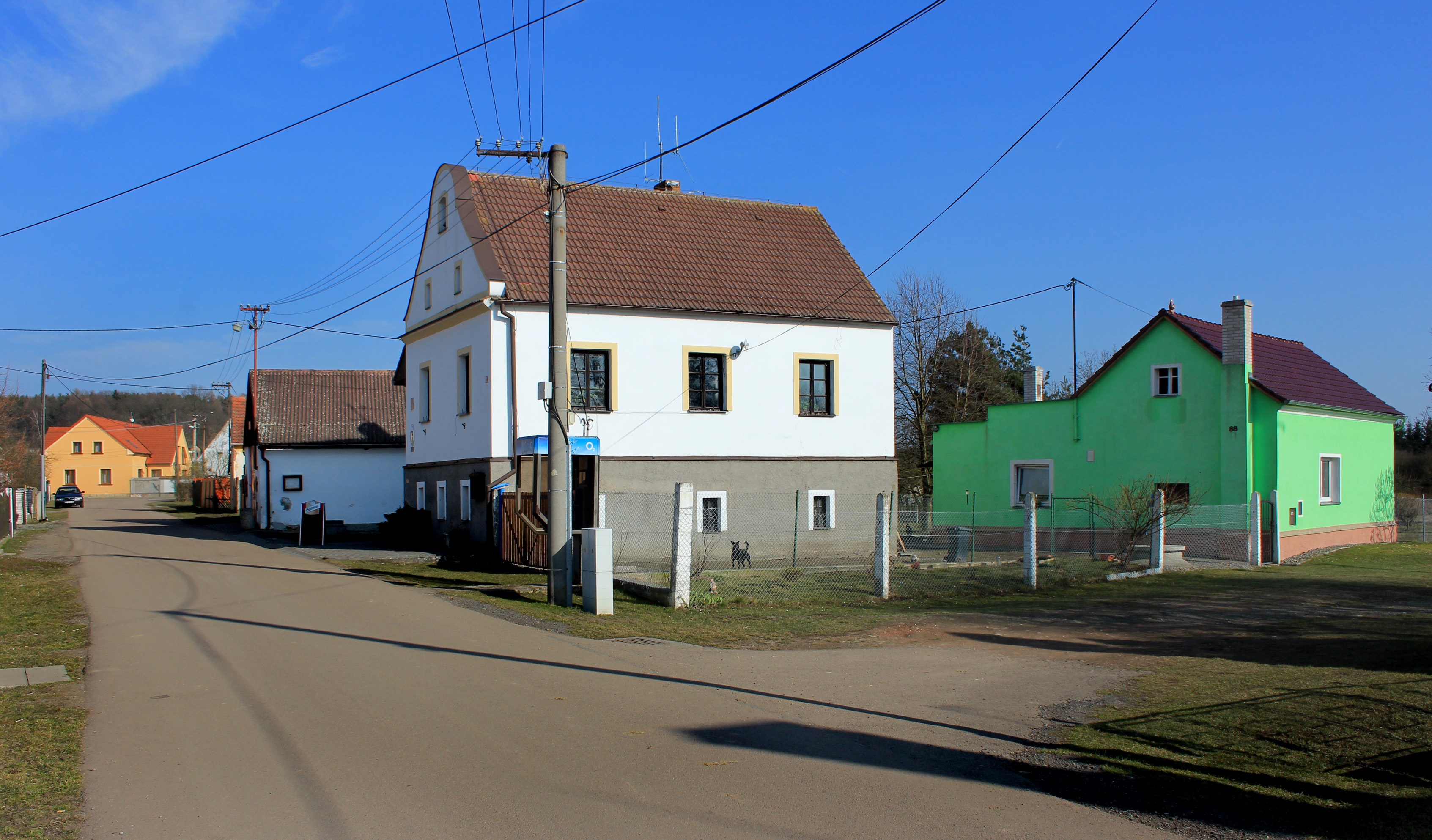 Municipal office in Rochlov, Czech Republic.